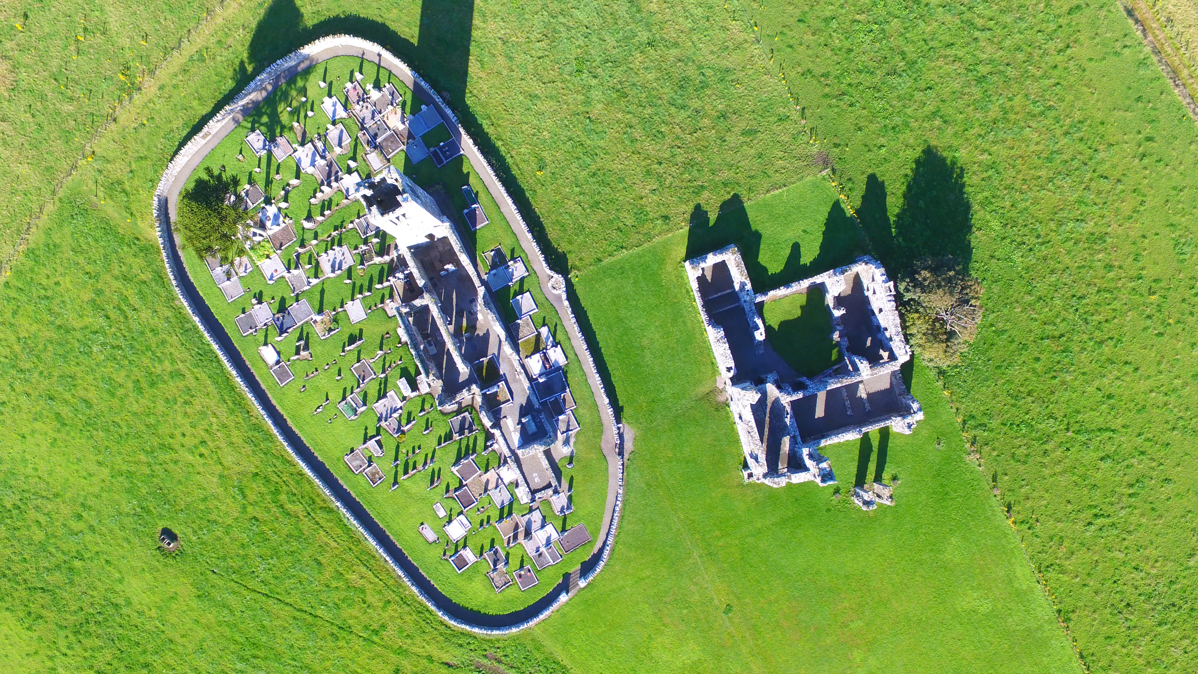 Hill of Slane Church